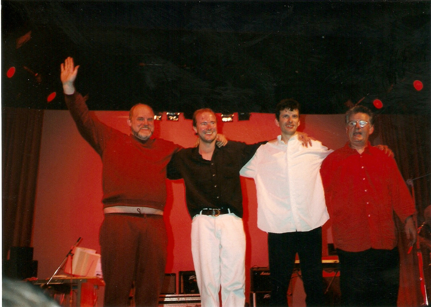 The Enid, 1998 line-up, at Derby in 1998